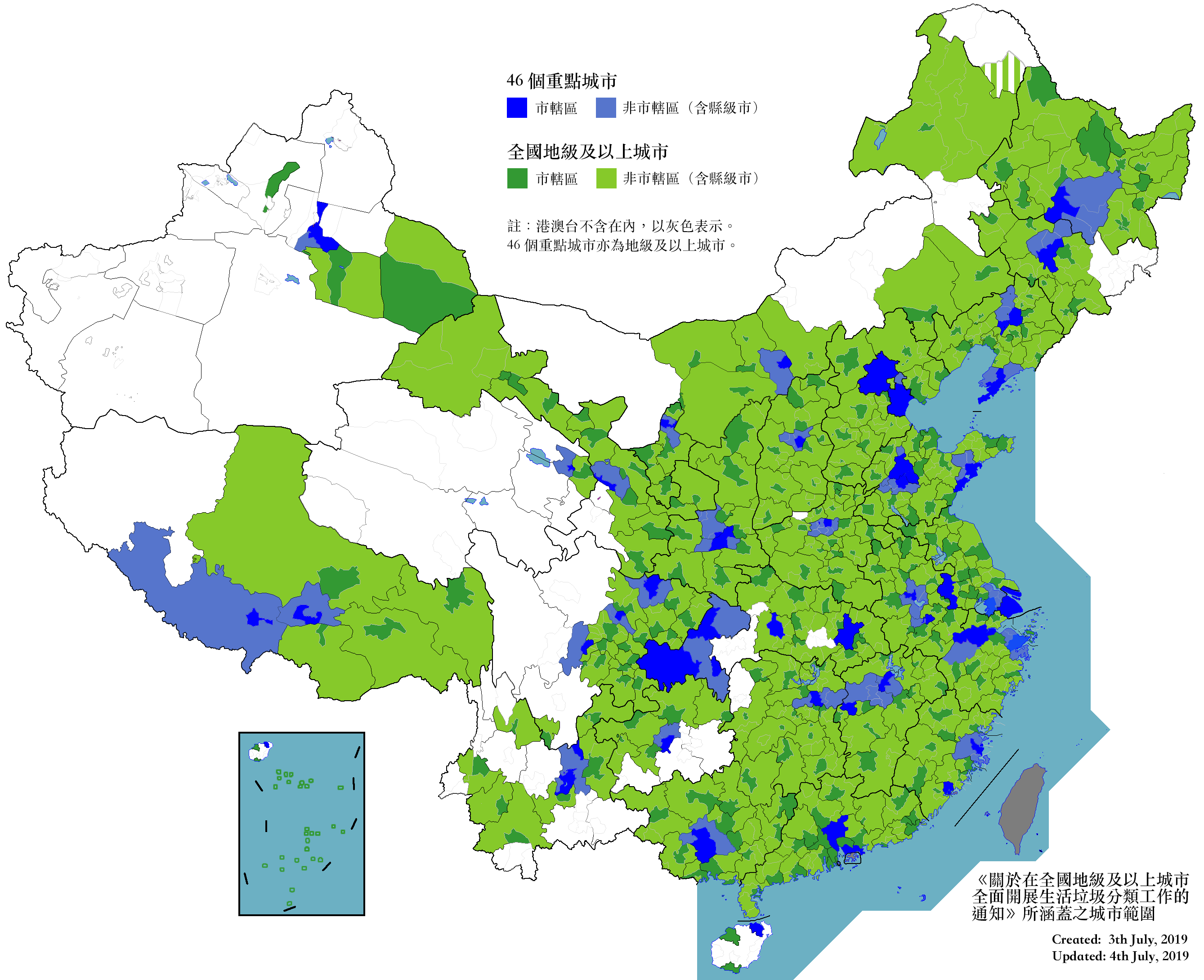 Waste sorting in China zh-hant